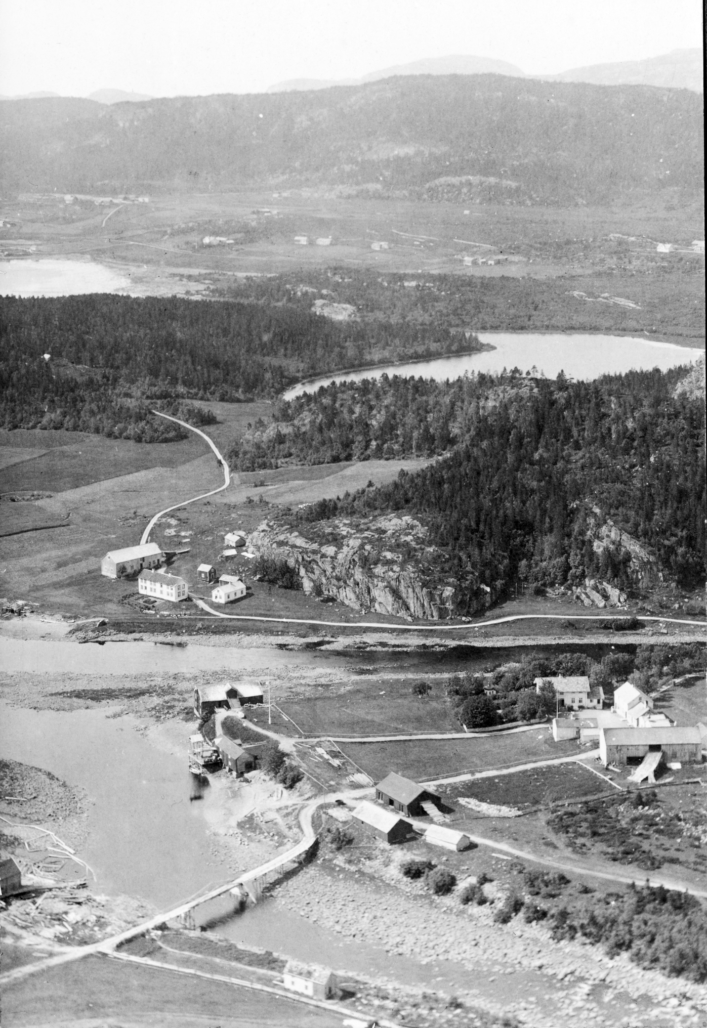 Årnes, Åfjord about 1910